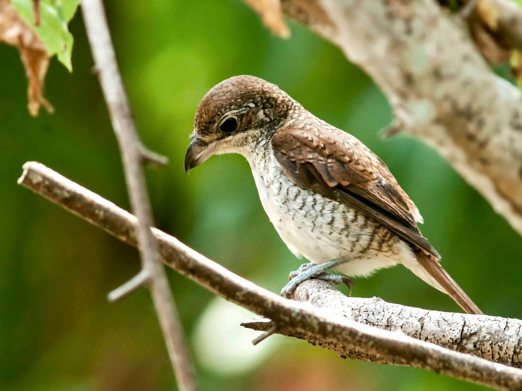 A juvenile Tiger Shrike (Lanius tigrinus) at Eng Neo Avenue, Bukit Timah, Singapore.